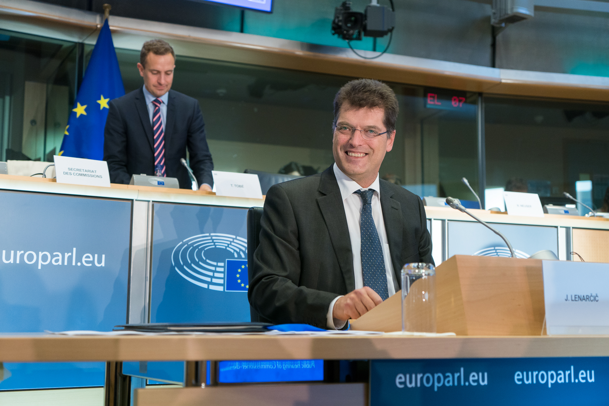 Before the European Parliament can vote the new European Commission led by Ursula von der Leyen into office, parliamentary committees will assess the suitability of commissioners-designate. On 23-26 May, more than 200,000,000 people in 28 EU countries went to the polls to elect members of the European Parliament, giving them a strong democratic mandate, including voting into office the new European Commission and examining the competencies and abilities of its commissioners-designate. Elected members of the European Parliament will also listen to their ideas and will assess their willingness to take concrete actions on the issues that Europeans care about. Each candidate commissioner is invited for a live-streamed, three-hour hearing in front of the committee or committees responsible for their proposed portfolio. The hearings will take place between Monday 30 September and Tuesday 8 October. This photo is free to use under Creative Commons license CC-BY-4.0 and must be credited: "CC-BY-4.0: © European Union 2019 – Source: EP". No model release form if applicable. For bigger HR files please contact: webcom-flickr(AT)